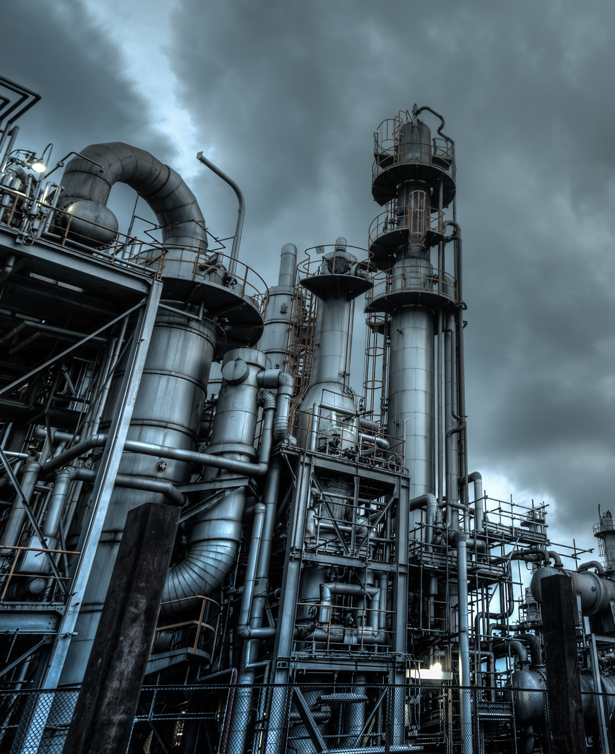 Distillation columns of Kawasaki Chidori factory opened in 1959